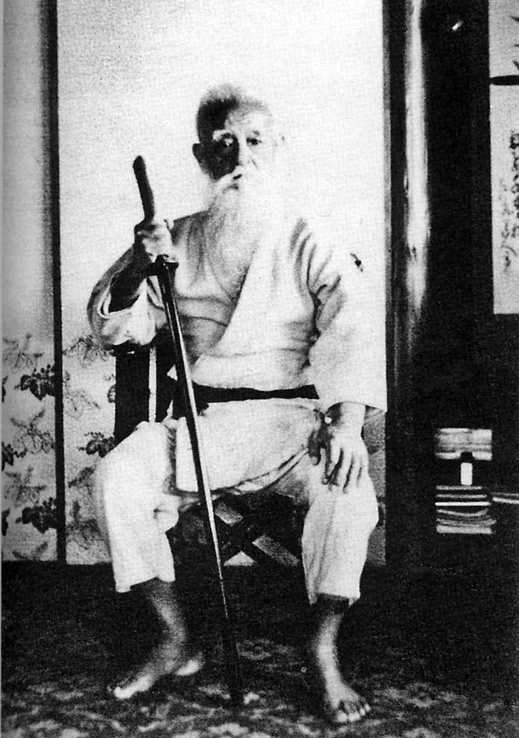 Yoshimura Chogi in his later years